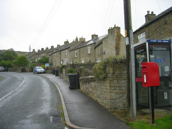 Hill End